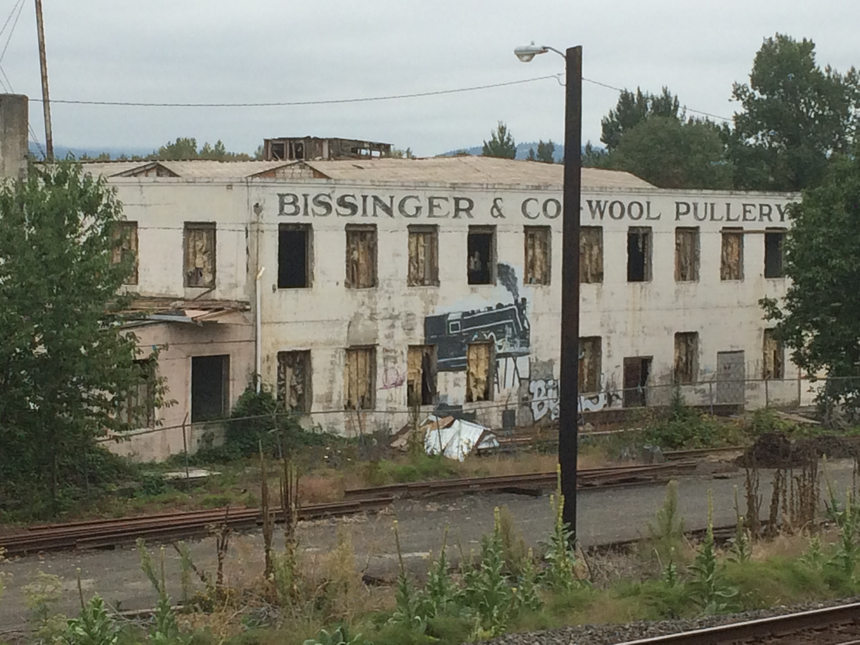 This is an abandoned facility, the Bissinger Wool Pullery, Troutdale, Oregon.